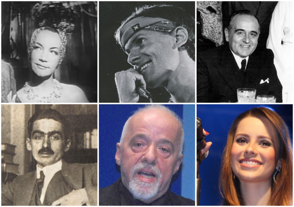 Portuguese-Brazilian people.